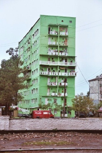 Tbilisi Georgia